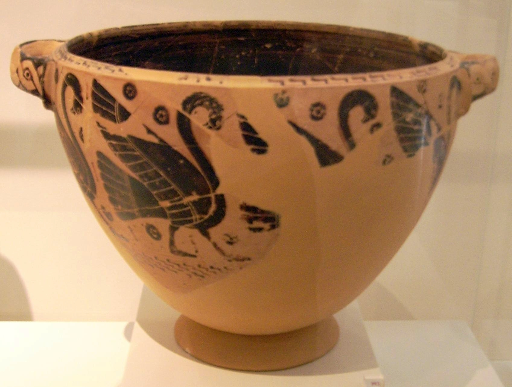 Early black-figure skyphos-krater by the Painter of Berlin A34, A-Side Swans, B-Side Spiral ornaments ans Swans' heads, about 630 BC., from the Vourvas tumulus in Attica, National Archeological Museum Athens (18772)